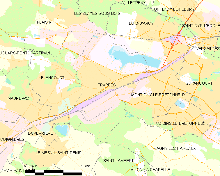 Map of French municipality Trappes